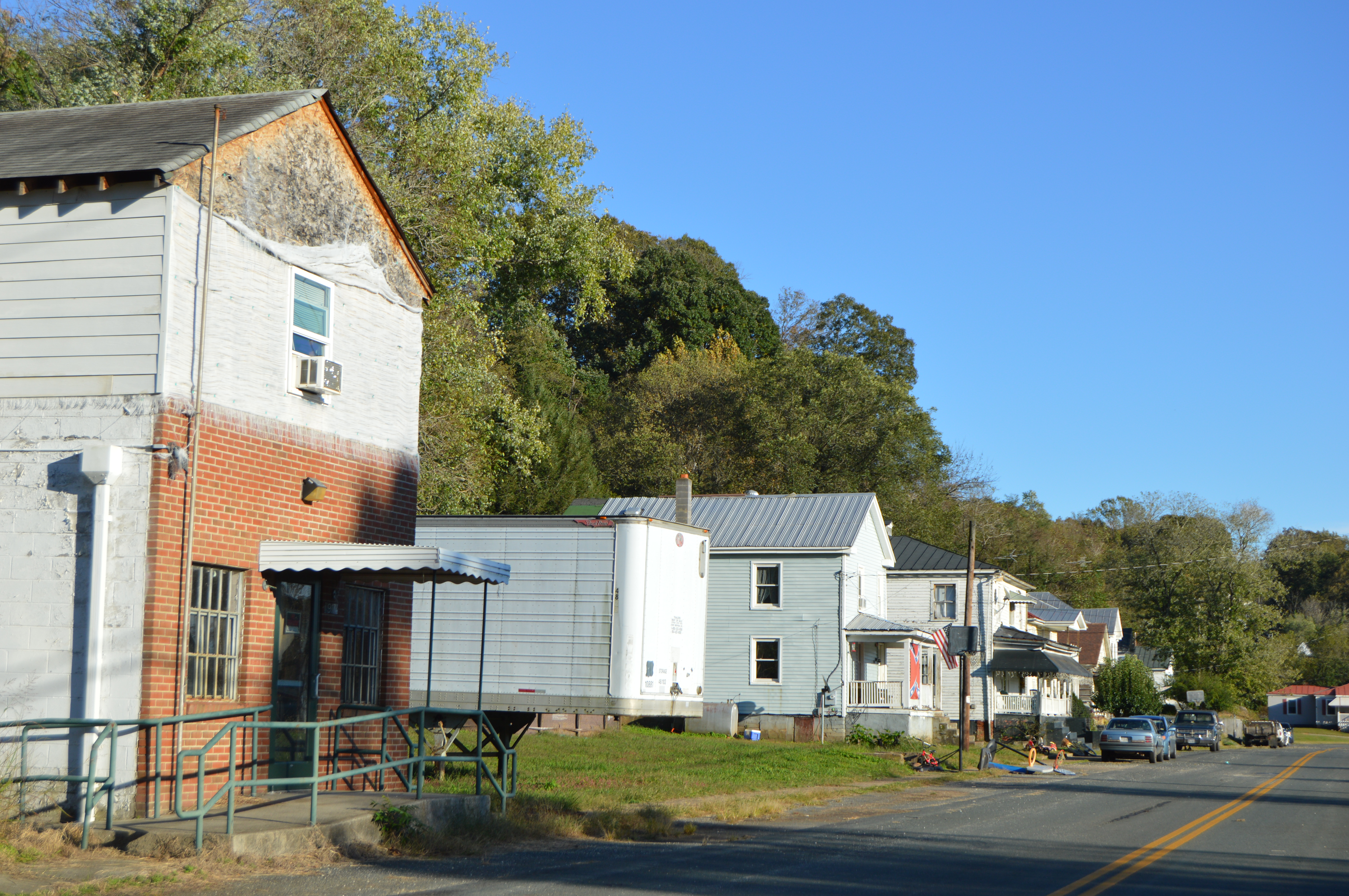 Houses and a commercial building on Gladstone Road at Gladstone in Nelson County, Virginia, United States.